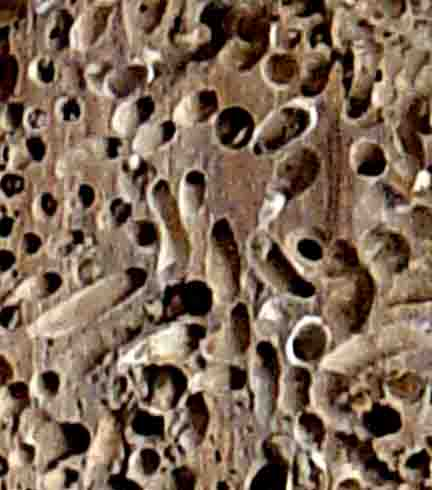 Teredo navalis A transsektion of a woodchunk from an atlantik seashore (France). The tunnels and holes are the work of Teredo navalis (species uncertain?) Ich bin der Fotograf.